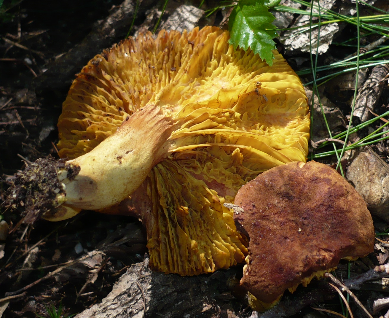 Phylloporus pelletieri from the woods of Rohrbach, district of Mattersburg, Burgenland, Austria